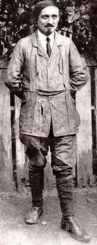 Emile Armand, French individualist anarchist and free love propagandist.